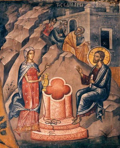 Jesus and the Samaritan woman. Fresco by Theophanes the Cretan, Monastery of Stavronikita, Mt Athos, 16th century